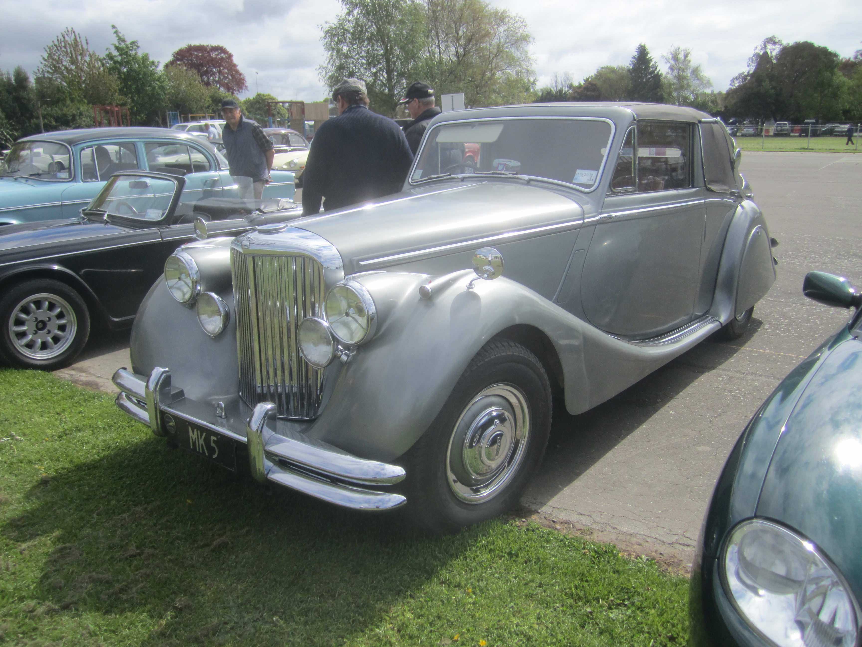 The Mk V was built from 1948-51. Available in Saloon or Drophead Coupe. Engine; 2664 or 3485cc 6 cyl from NZ registration records: 1951 Jaguar (MK5) 2,700cc Petrol engine